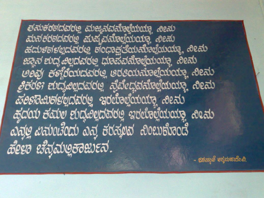 A vachana (poem) by the Kannada poetess, Akkamahadevi